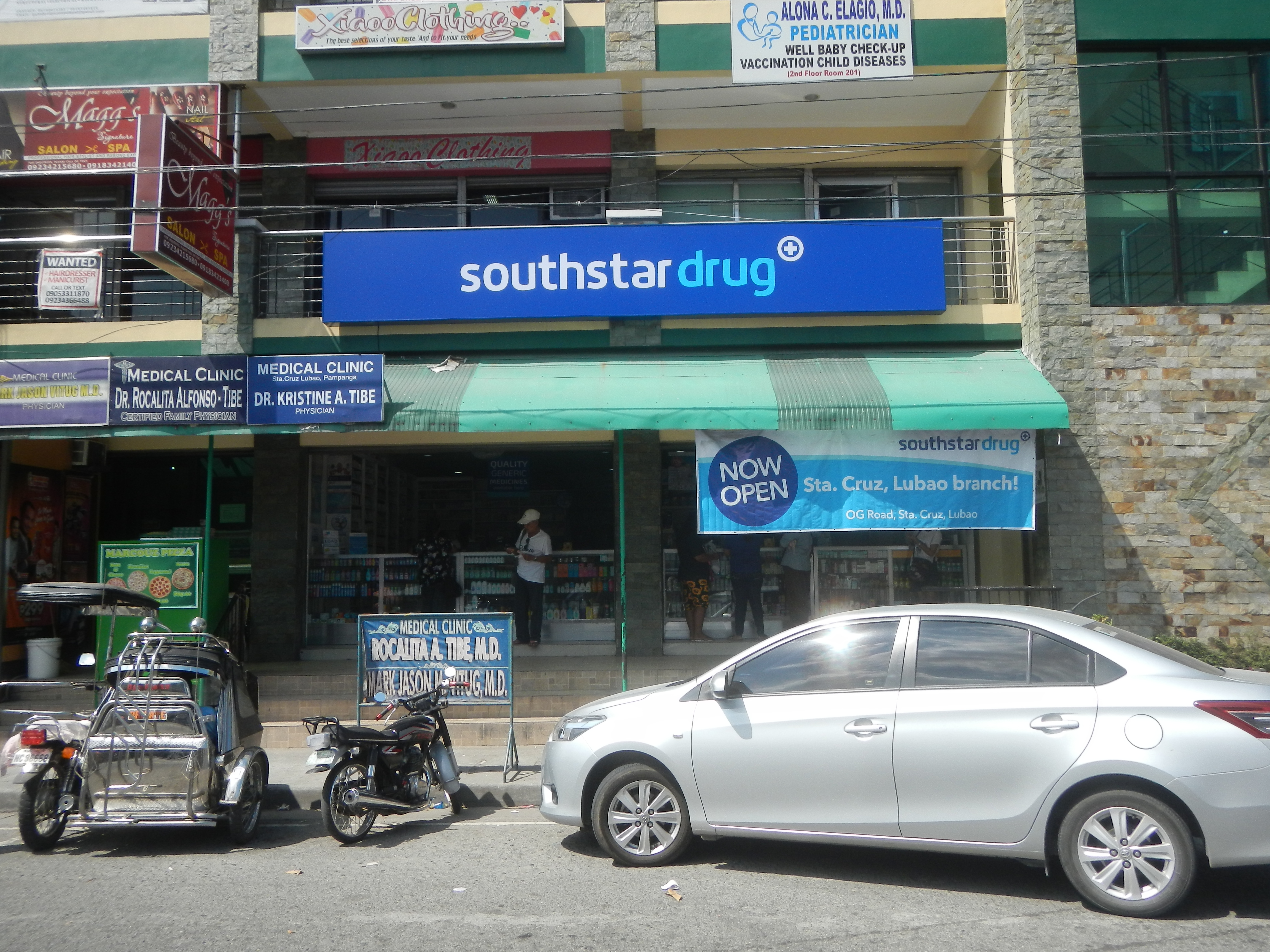 South Star Drug Mercury Drug Santa Cruz Lubao Pampanga